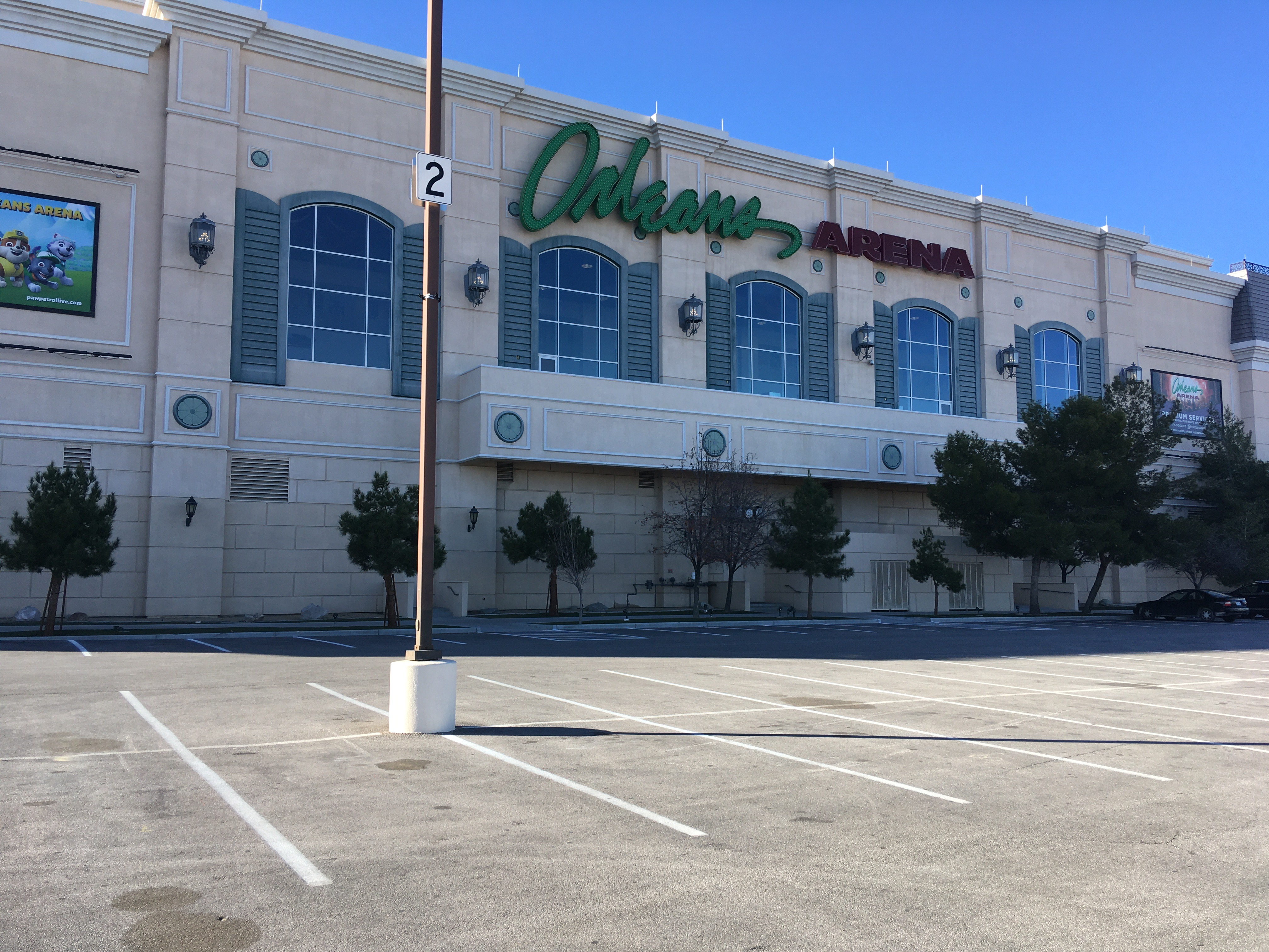 Orleans Arena in December 2019 taken from east parking lot